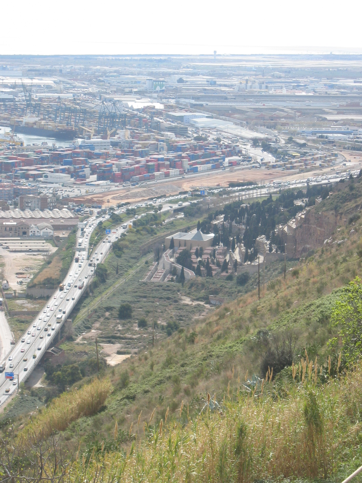 Barcelona Free Port and highway Autovía A-2; view from Montjuïc